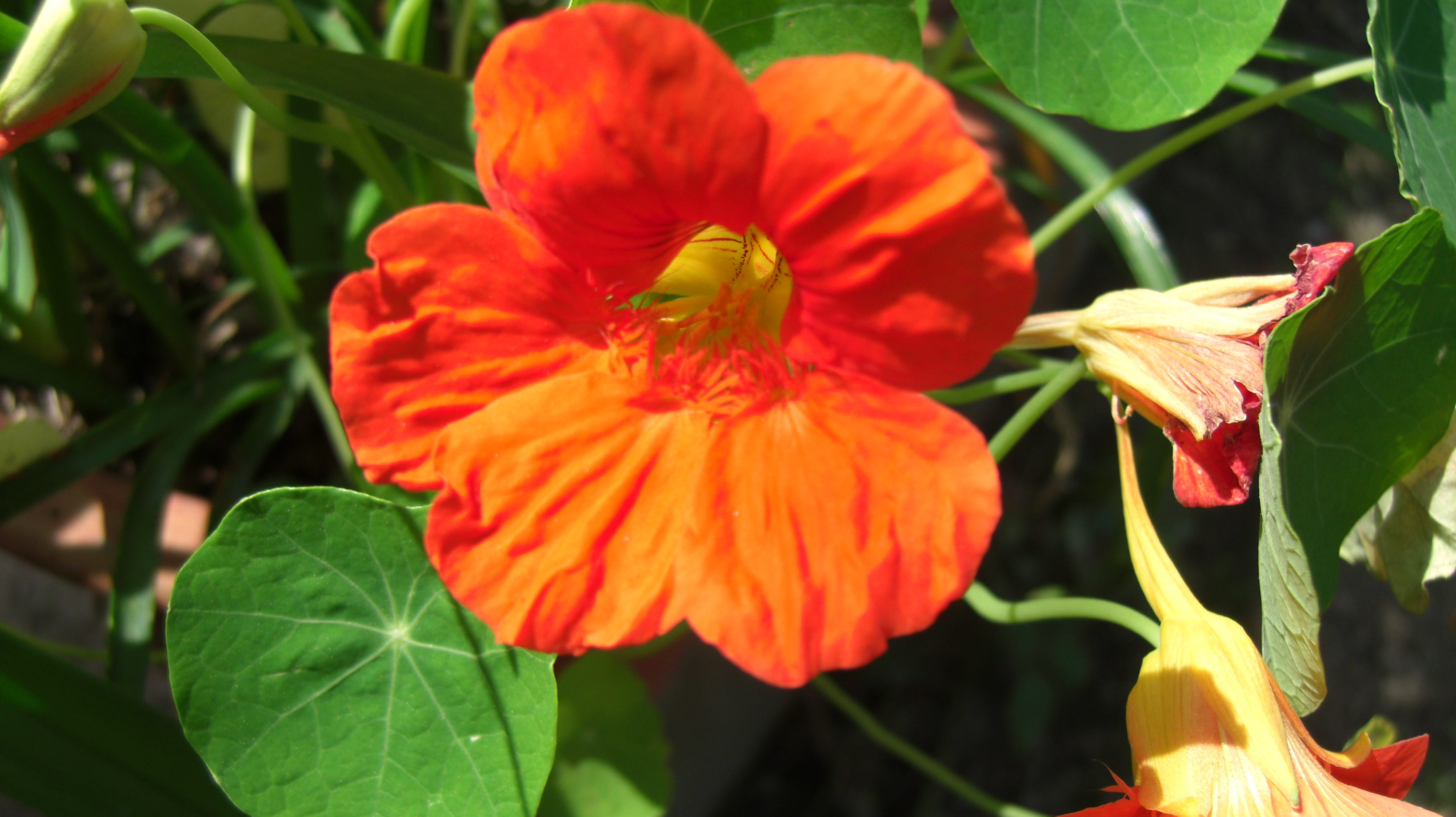 Beautiful Orange flower